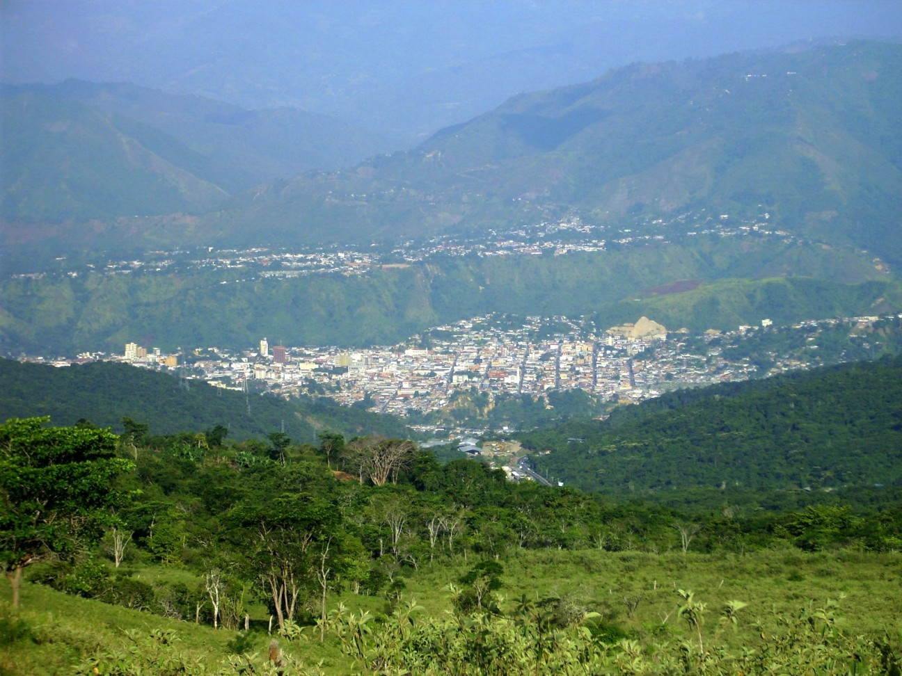 Valera's view from Sabana Libre Town.